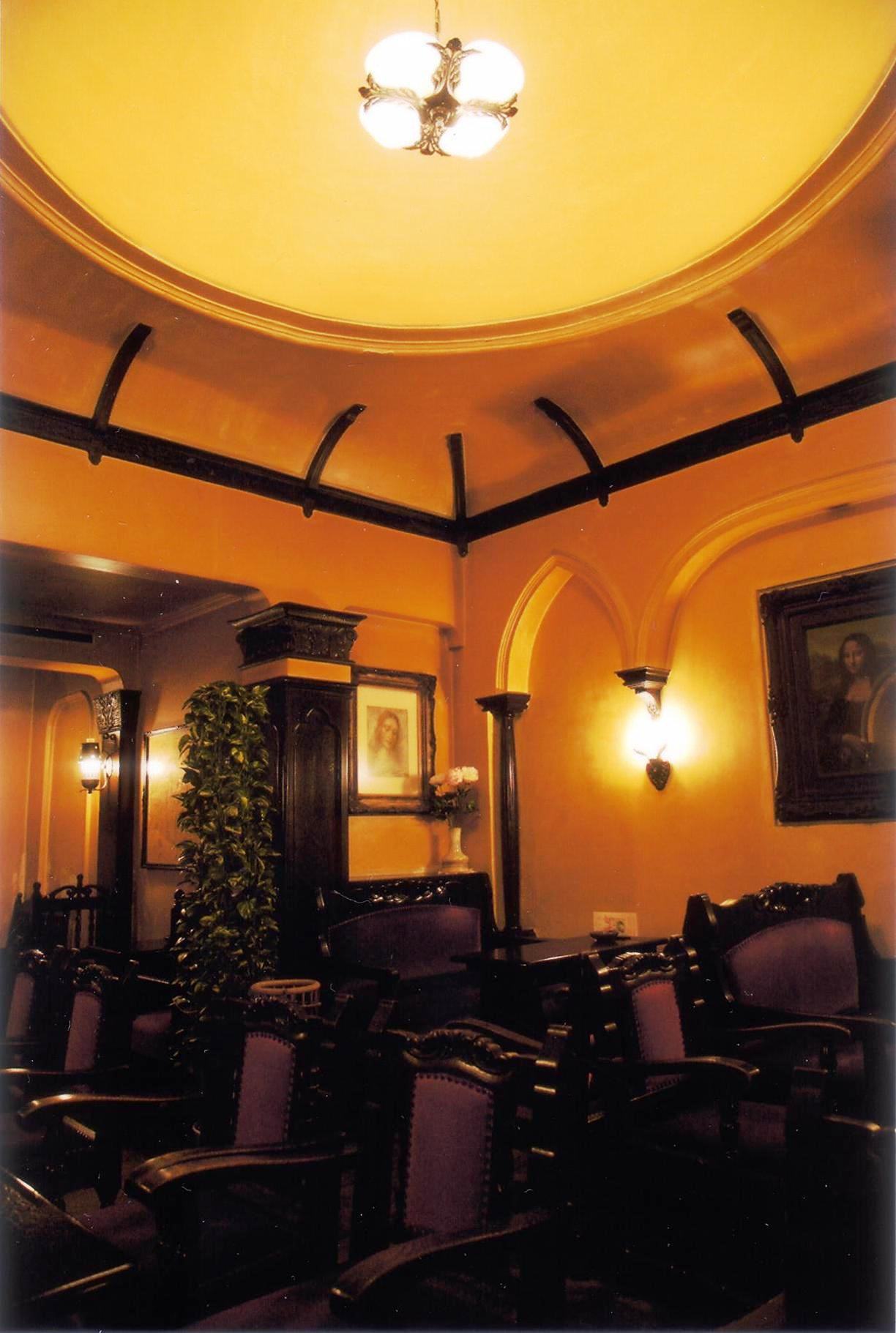 Interior hall of remodeled building of Salon de thé François (Kyoto, Japan) in 1941